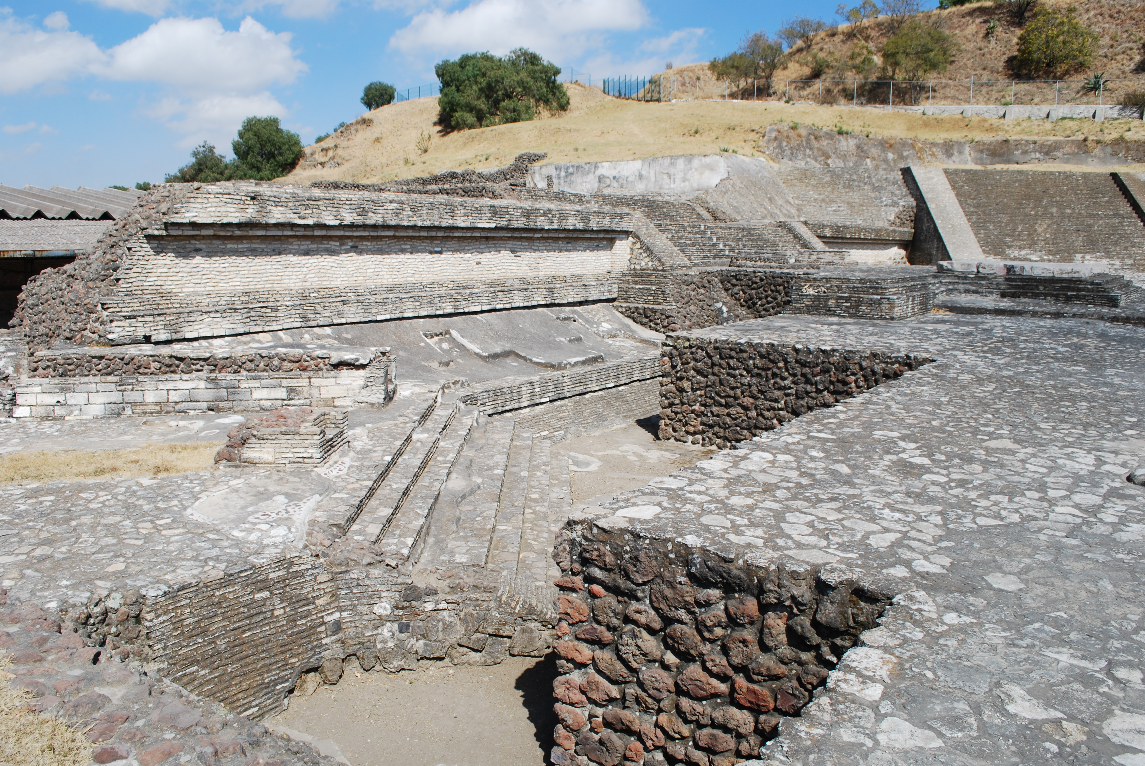 Northwest corner of the Patio of the Altars at the Great Pyramid of Cholula, Puebla, Mexico